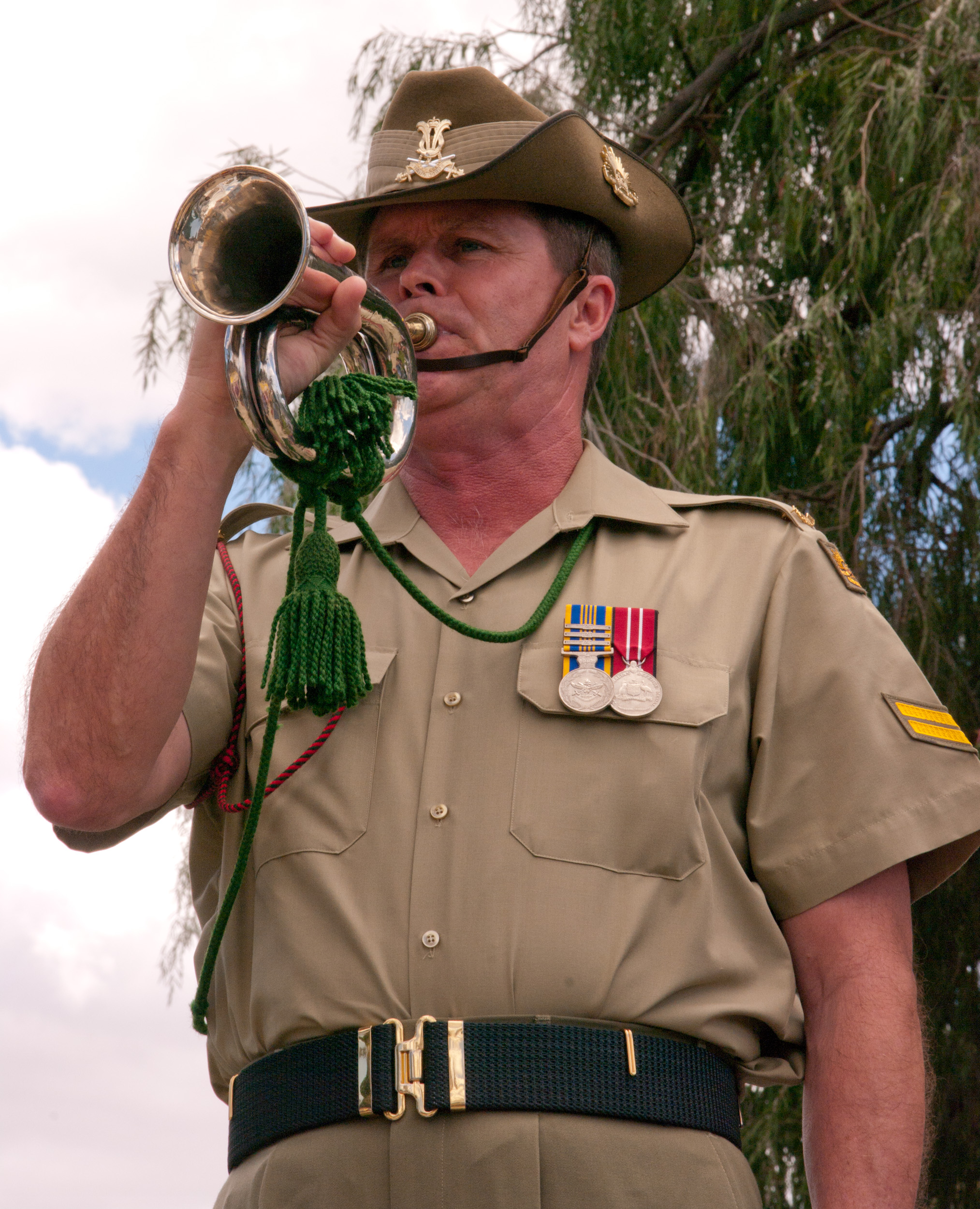 Remembrance Day ceremony Kings Park, Western Australia November 11 2012 Australian Army Bugler playing the last post